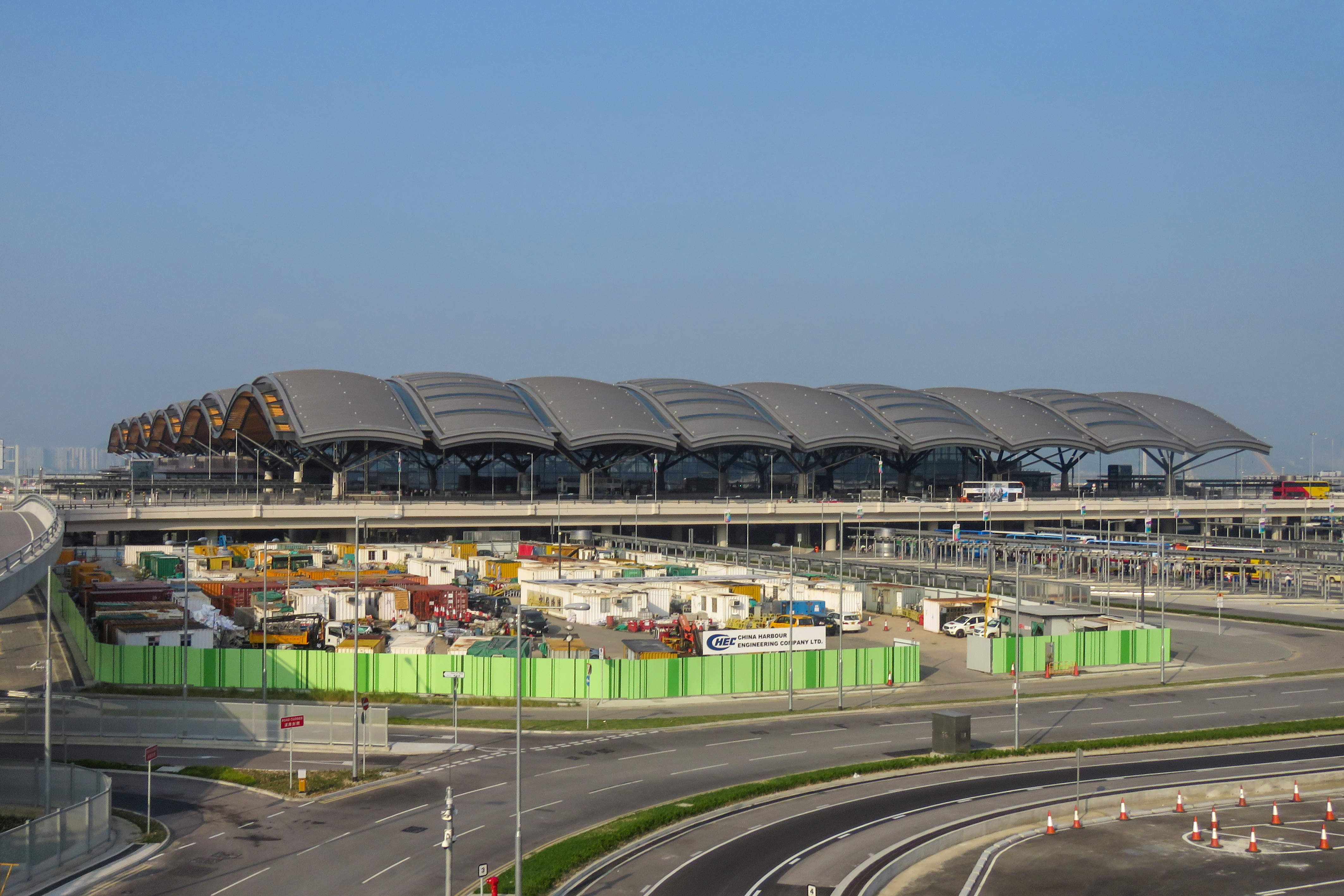 Taken from a returning B5.